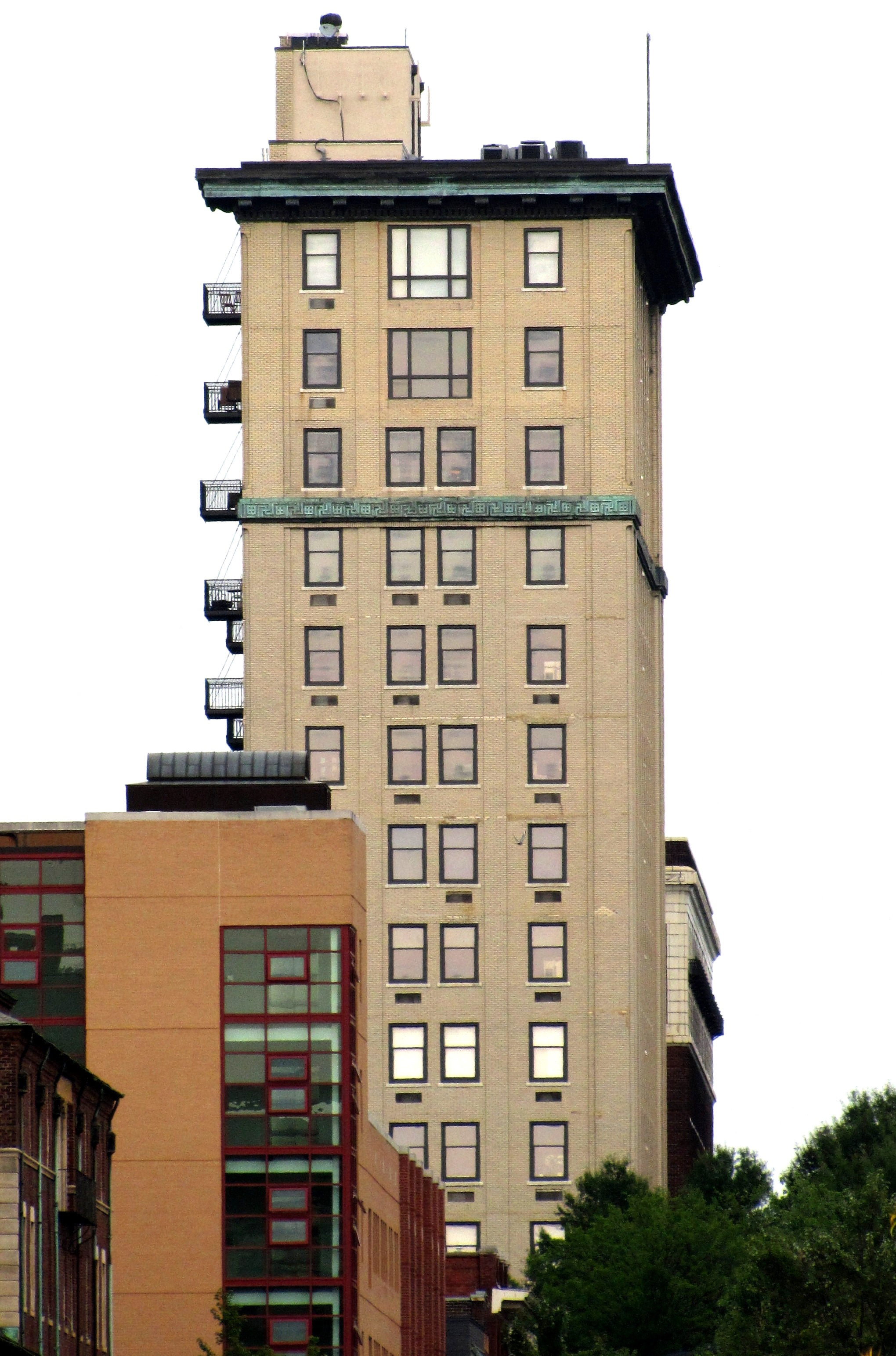 The west facade of the Holston, viewed from the intersection of Clinch and 11th, in Knoxville, Tennessee, USA.